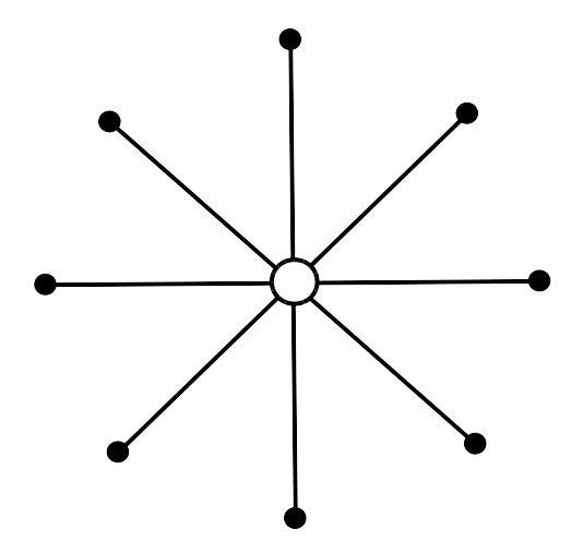 Diagram showing the directions of embusen and the kiten. Karate kate will typically proceed along lines of embusen and start and finish on the kiten.